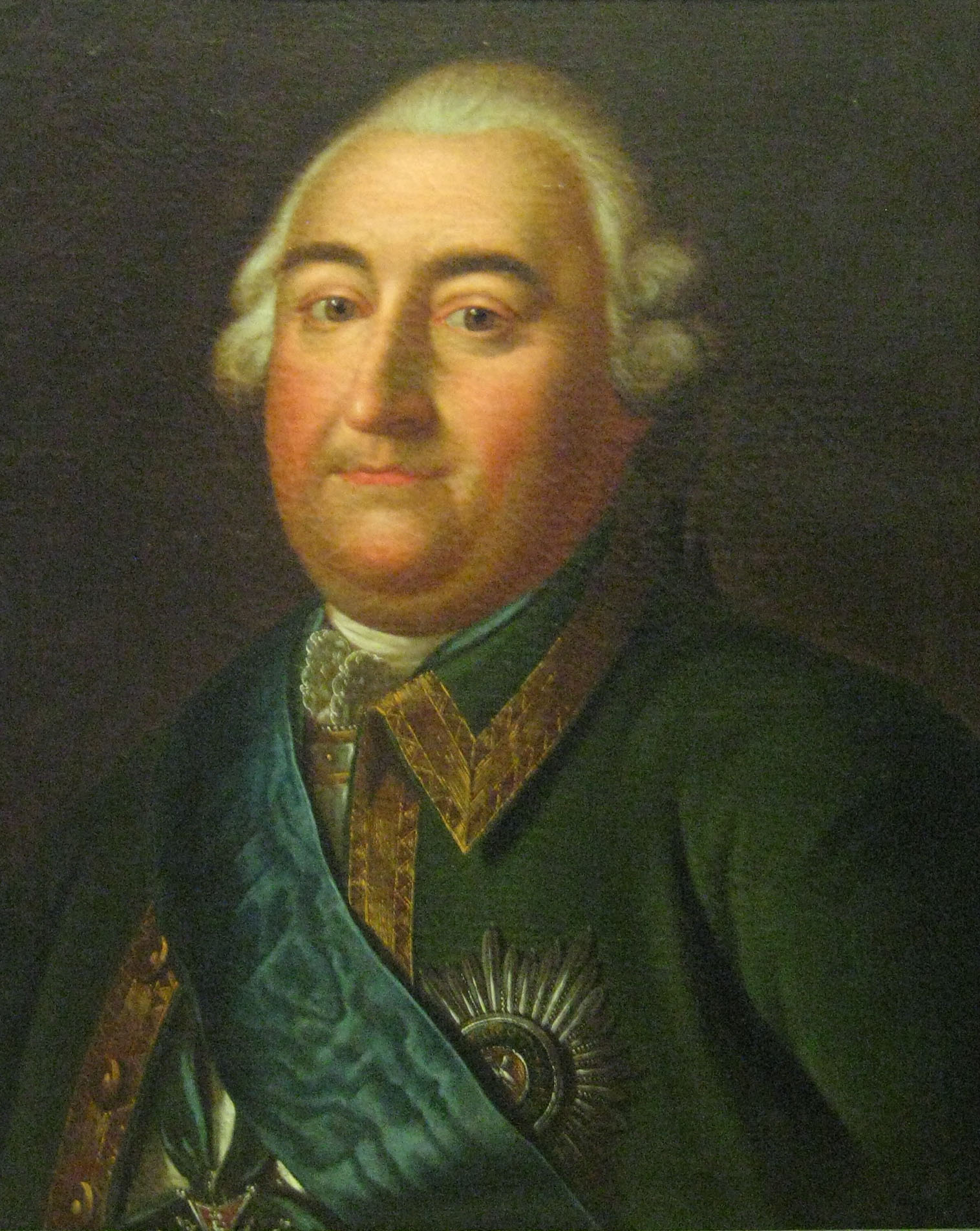 18th-century portrait of Stepan Apraksin, Russian Field Marshal (1702-1758). Портрет С.Ф. Апраксина. ГИМ